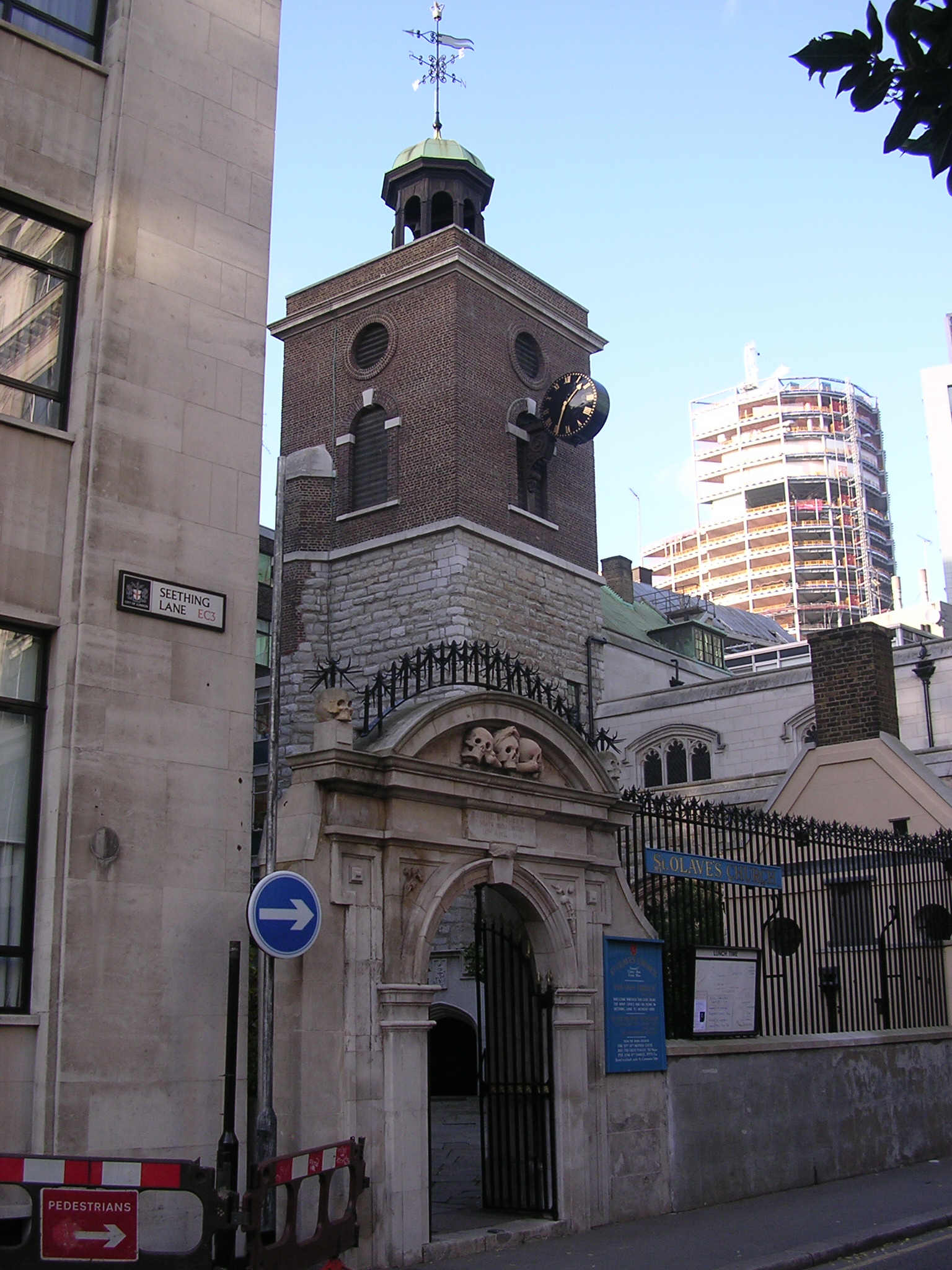 Author: Guy de la Bedoyere. St Olave's church, Seething Lane entrance.